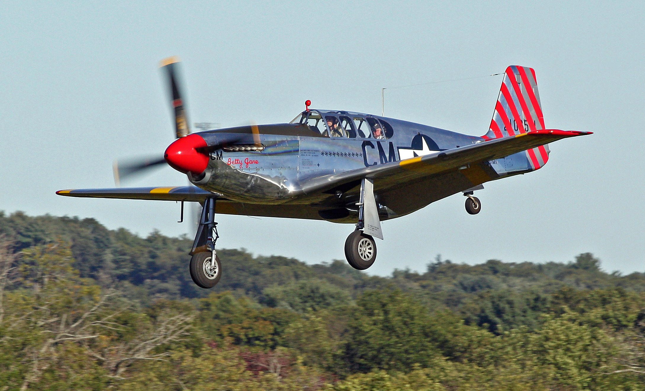 World’s only dual control P-51C Mustang belongs to the Collings Foundation in Stow, Massachusetts and appears at Air Shows throughout the United States for all to see and photograph.